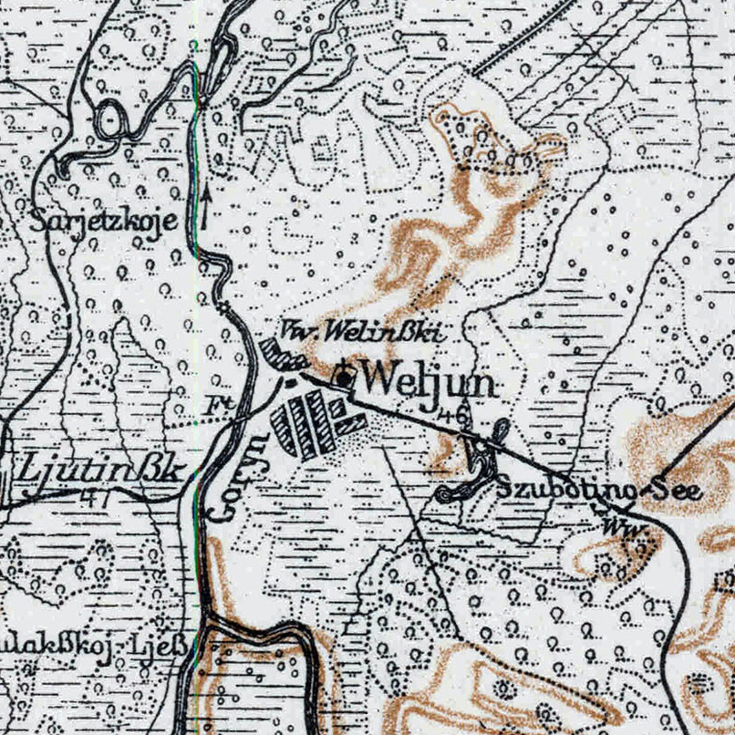 Veliun on the map "Karte des Westlichen Russlands", T 35, 1917. According to Digital Repository of Scientific Institutes and Kujawsko-Pomorska Digital Library the map is in the public domain.